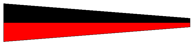 House master pennant of Karelia